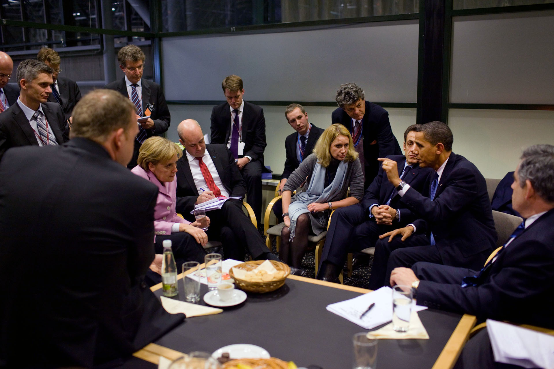 President Barack Obama briefs European leaders following a multilateral meeting at the United Nations Climate Change Conference in Copenhagen, Denmark. Participants include British Prime Minister Gordon Brown, French President Nicolas Sarkozy, Danish Prime Minister Lars L. Rasmussen, Swedish Prime Minister Fredrik Reinfeldt, and German Chancellor Angela Merkel.